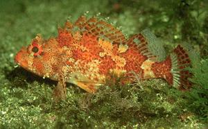 picture of Scorpaena maderensis